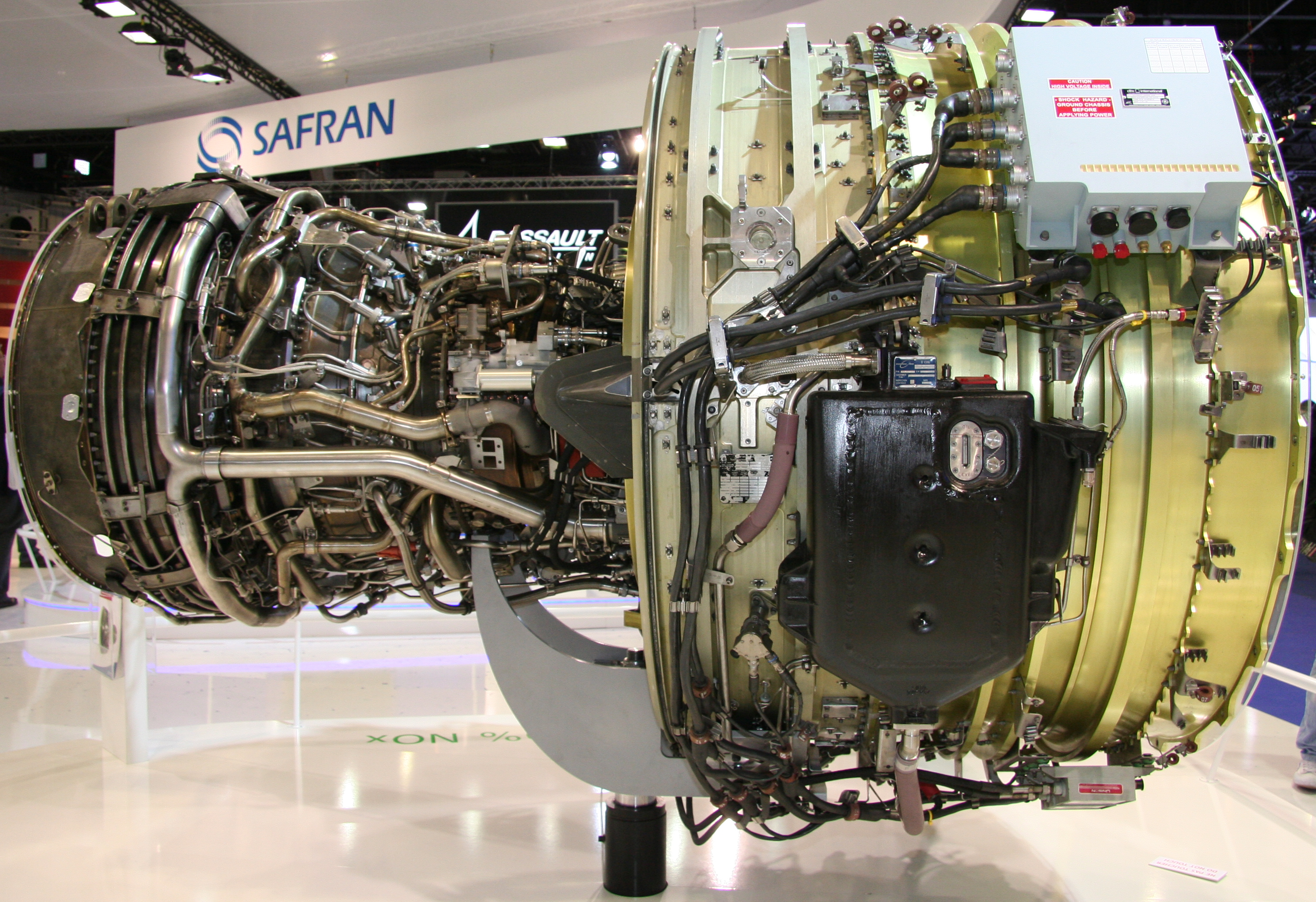 CFM International CFM56-7B - Paris Air Show 2009